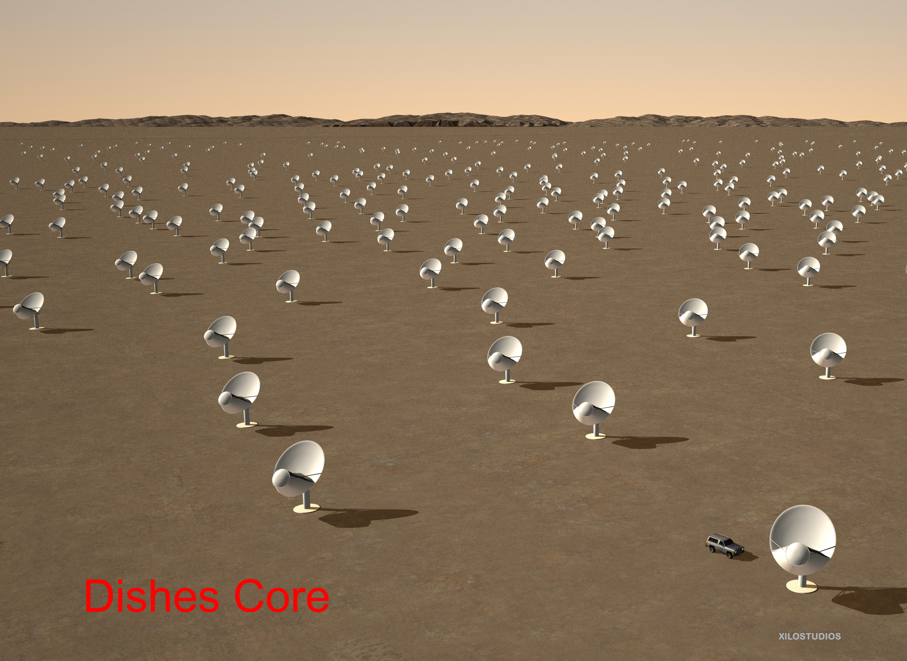 An artist's impression of the 5 km diameter core of dish antennas in the central region of the SKA